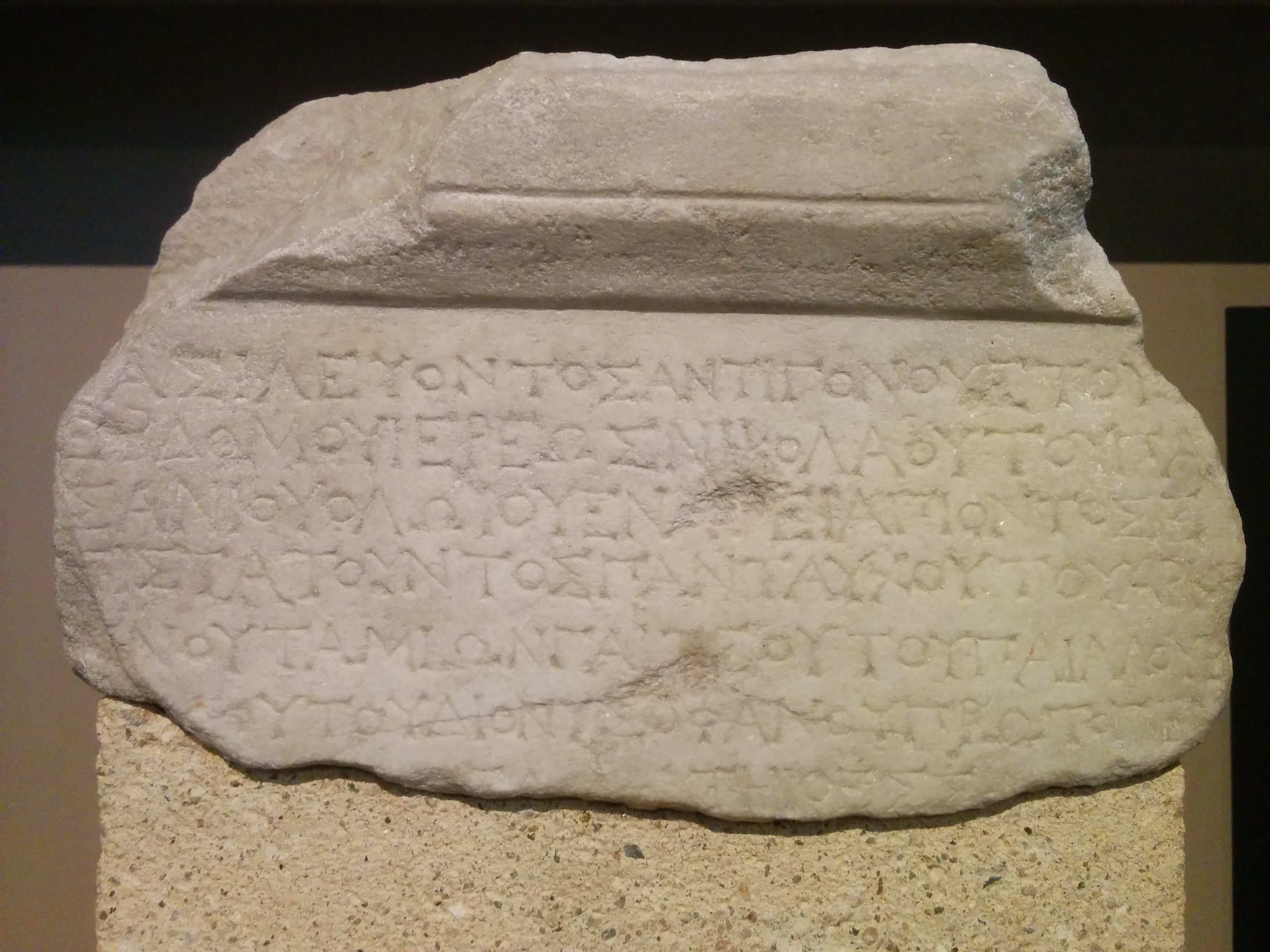 Inscription mentioning Antigonos III Doson, Archaeological Museum of Thessaloniki